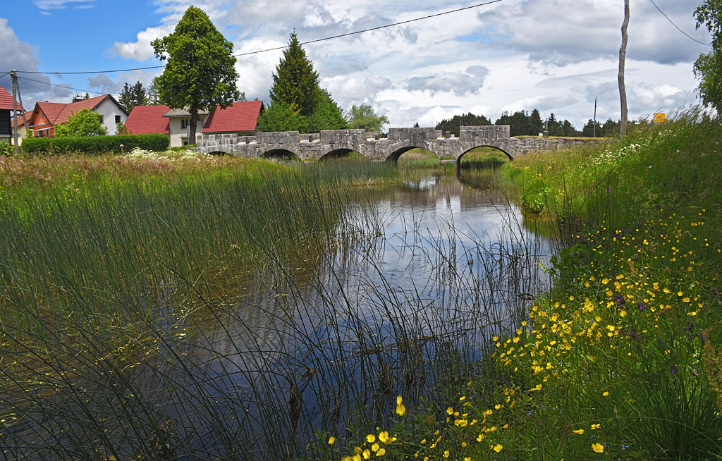 Small bridge over the creek of Bloščica.